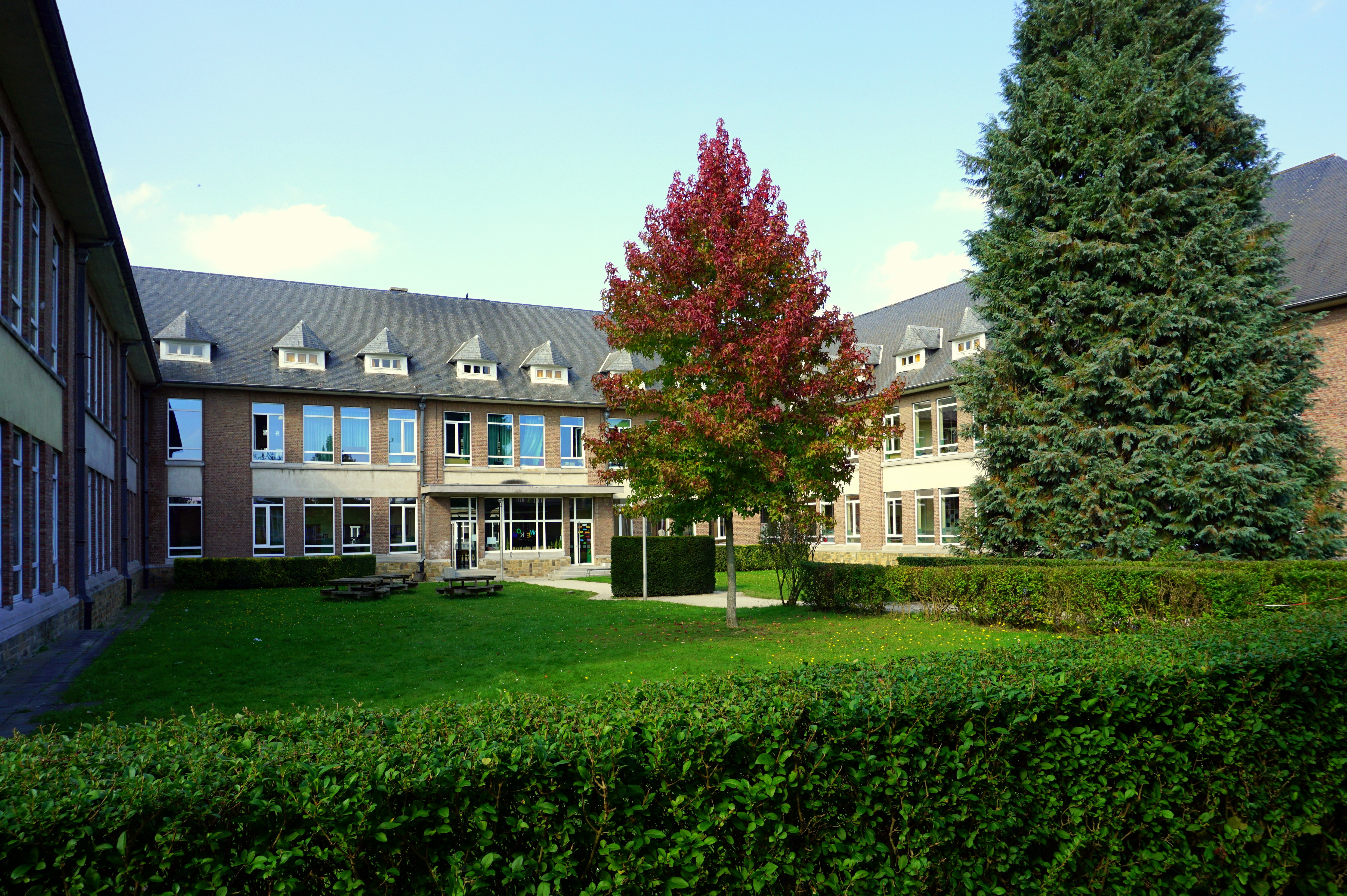 Heilig Hartinstituut Heverlee (Leuven, Belgium)